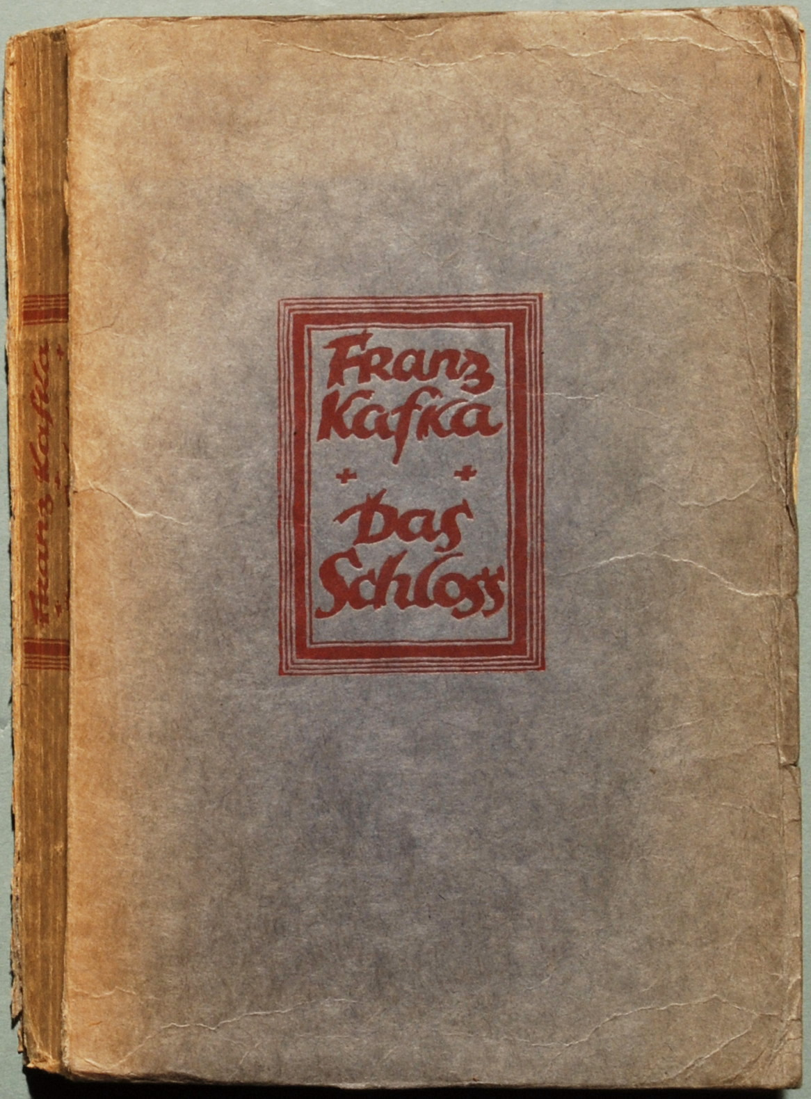 Kafka, Franz: The Castle. Novel. Munich: K. Wolff 1926, 502 pages. Original paperback of the first edition (Wilptert / Gührig ² 9, Raabe 9)